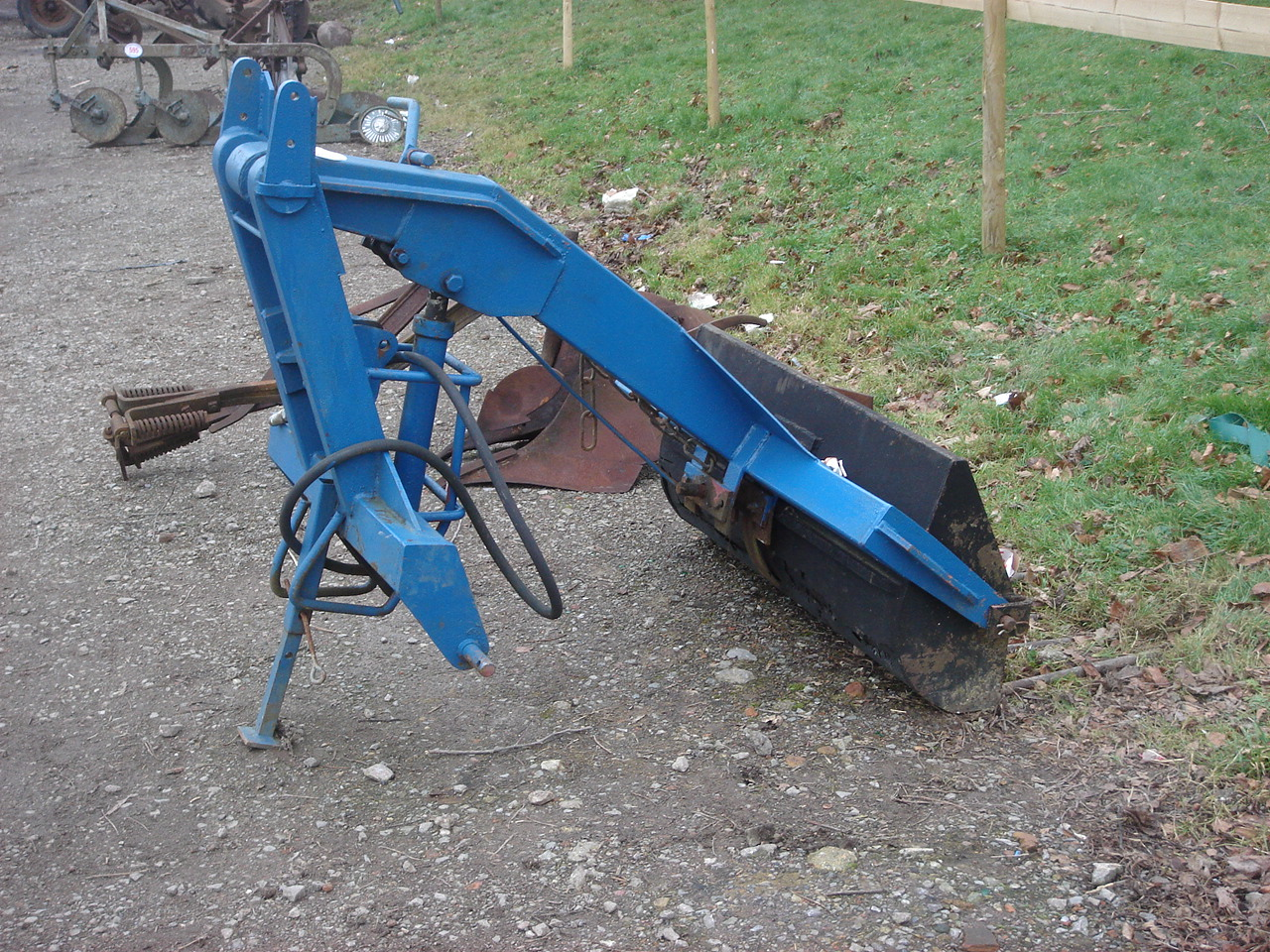 A tractor rear loader attachment of unknown make at a sale somewhere in the UK (a rusty plough behind). The rear loader is designed to be mounted on the three-point linkage.